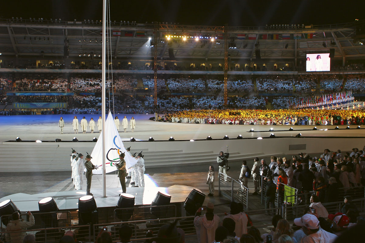 The Olympic flag is raised. The flag was brought into the stadium by Sophia Loren, Isabel Allende, Nawal El Moutawakel, Susan Sarandon, Wangari Maathai, Manuela Di Centa, Maria de Lurdes Mutola and Somaly Mam